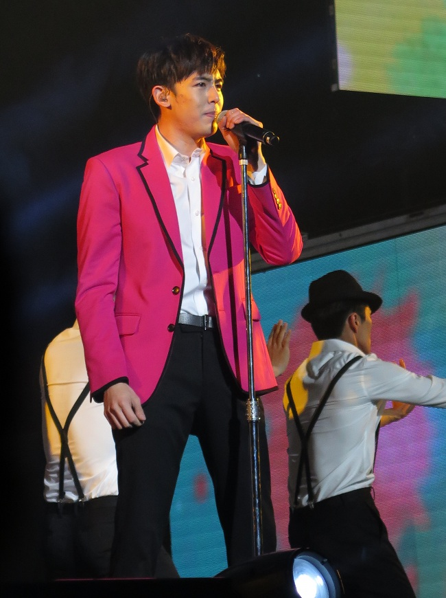 2PM Go Crazy World Tour, Prudential Centre, Newark, New Jersey, U.S.A.